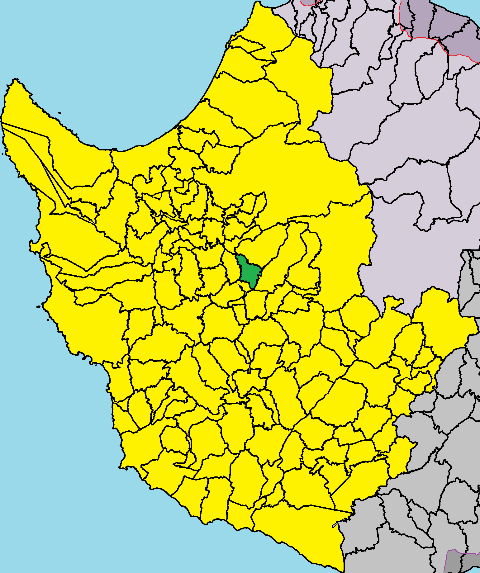 Fyti in Paphos District.